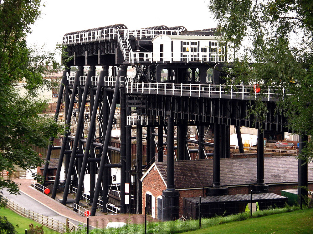 The Anderton Boat Lift in Cheshire England. Author